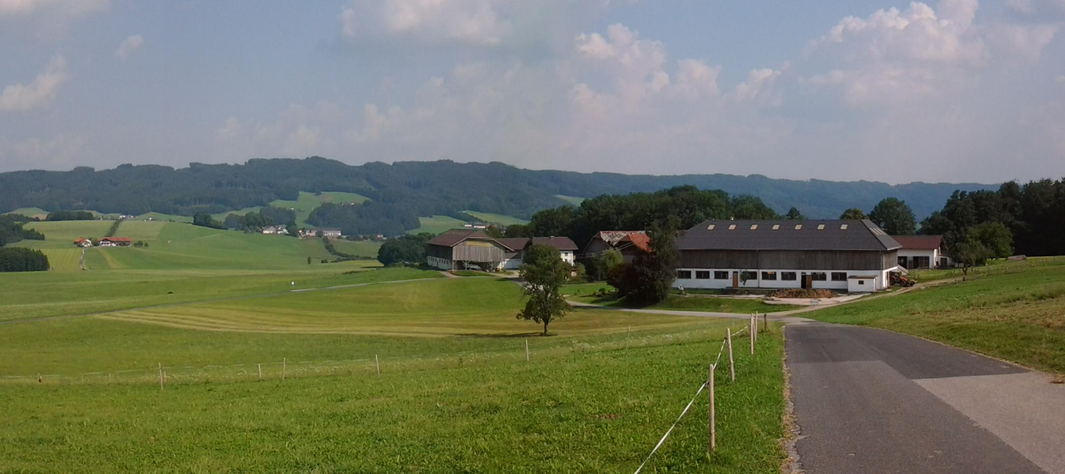 Hamlet Reicherting, cadstral community St. Alban, municipality of Lamprechtshausen, state of Salzburg, Austria.